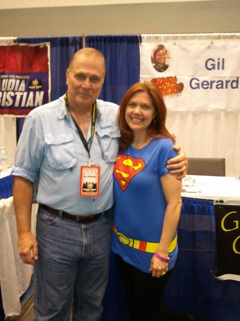 Gil Gerard with fan at Mid Ohio Comic Con in Columbus, Ohio. October 22, 2011